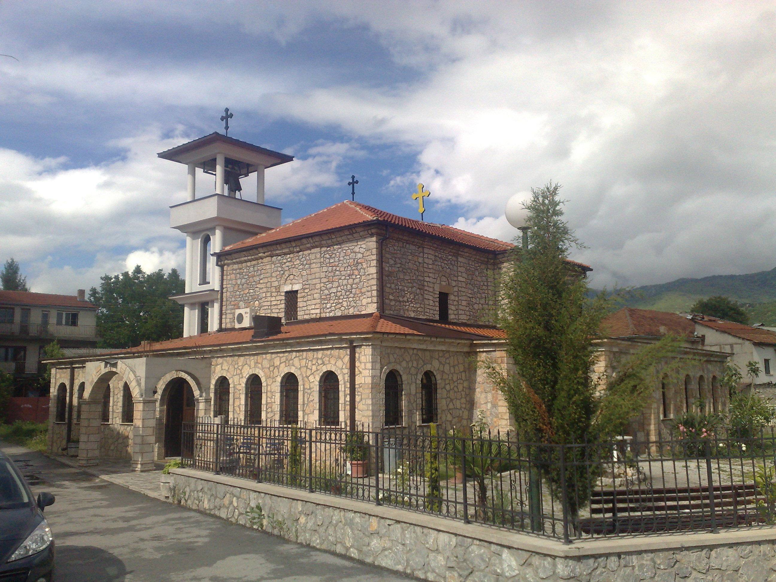 The church of St. Nicolas in Ohrid, Macedonia